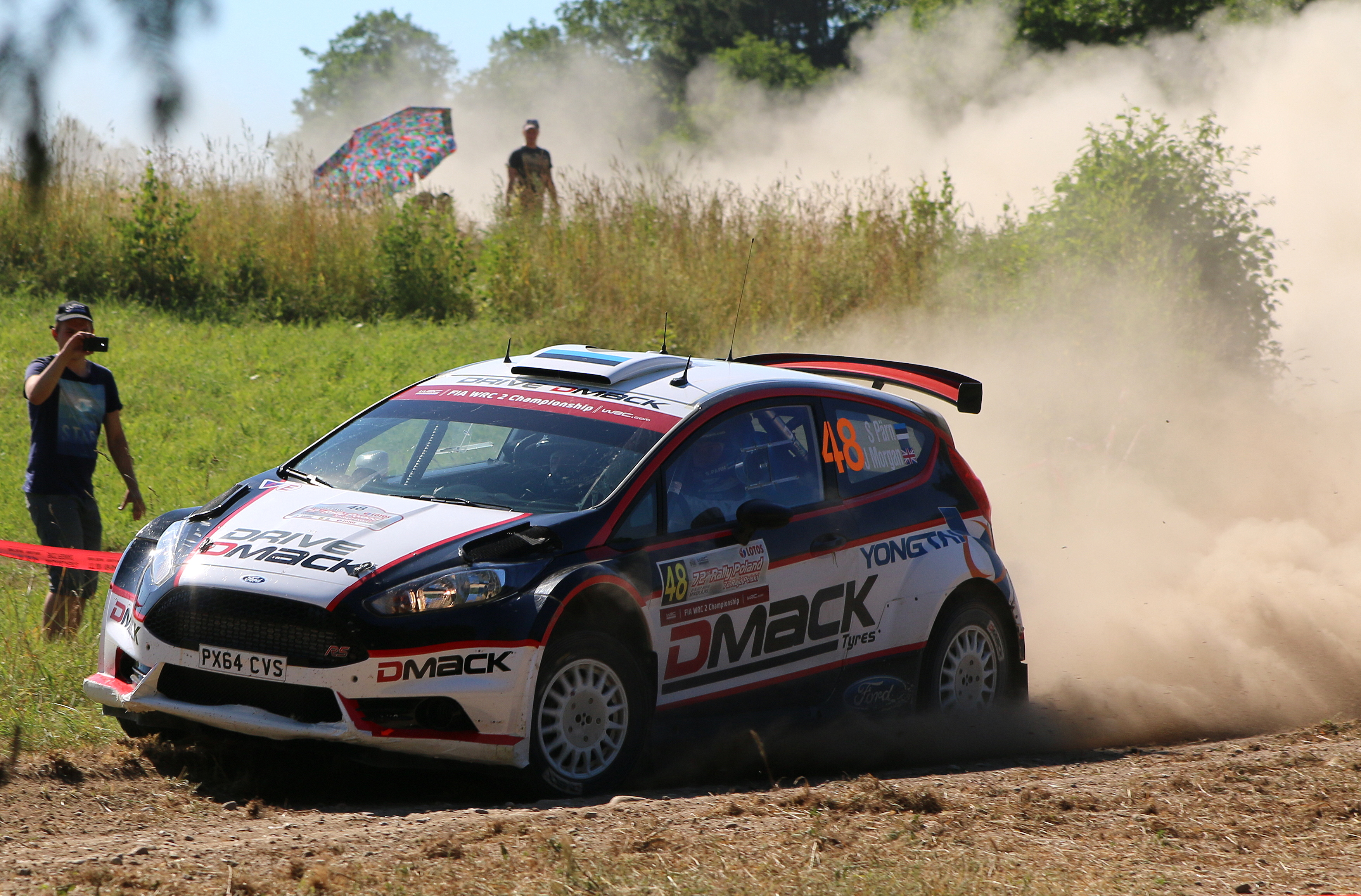 Sander Pärn, OS 10 Mazury, 72nd LOTOS Rally Poland